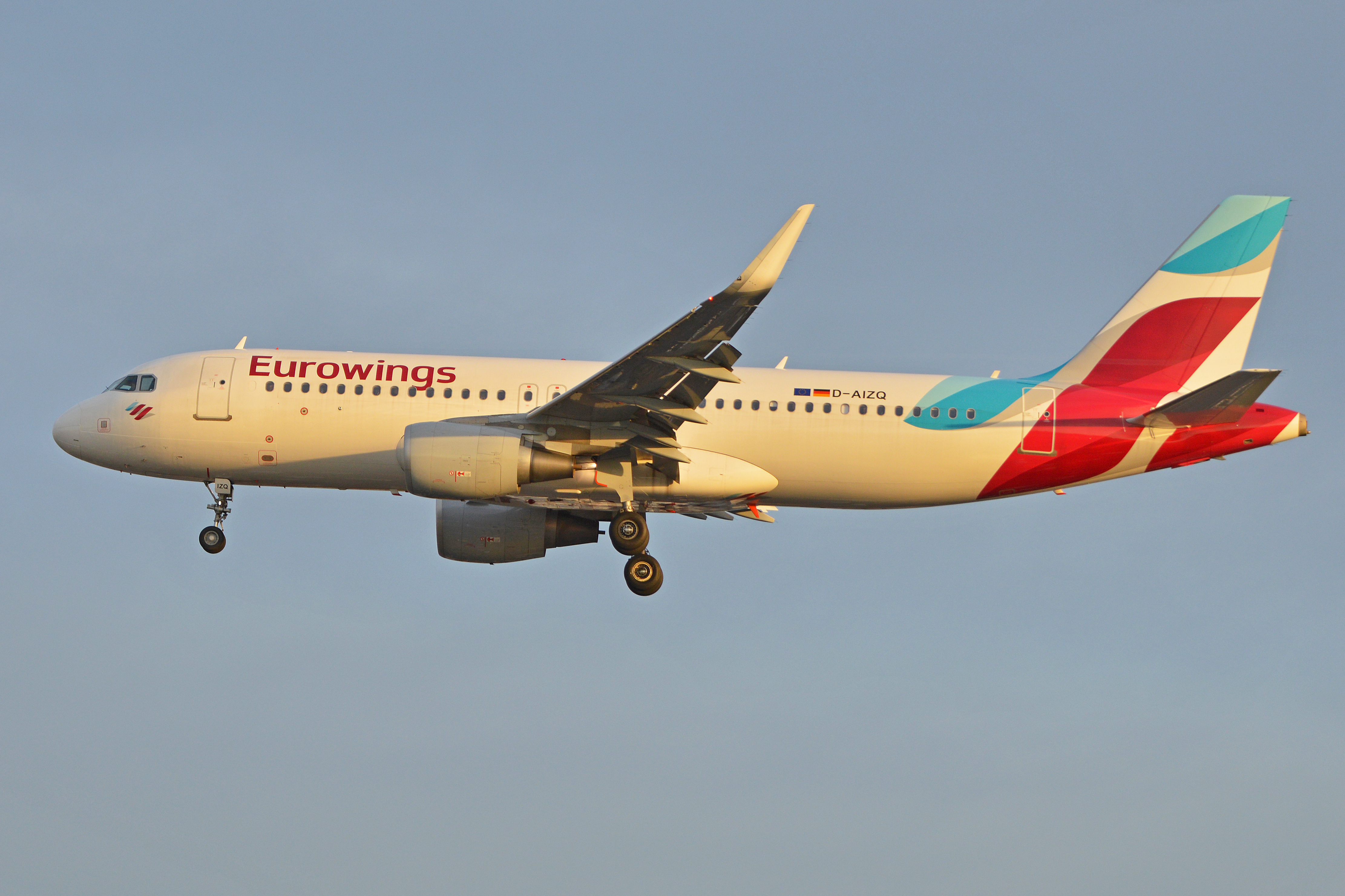 Airbus A320-214(w) ‘D-AIZQ’ Eurowings c/n 5497. Built 2013. Arriving at London Heathrow Airport. 25-10-2015